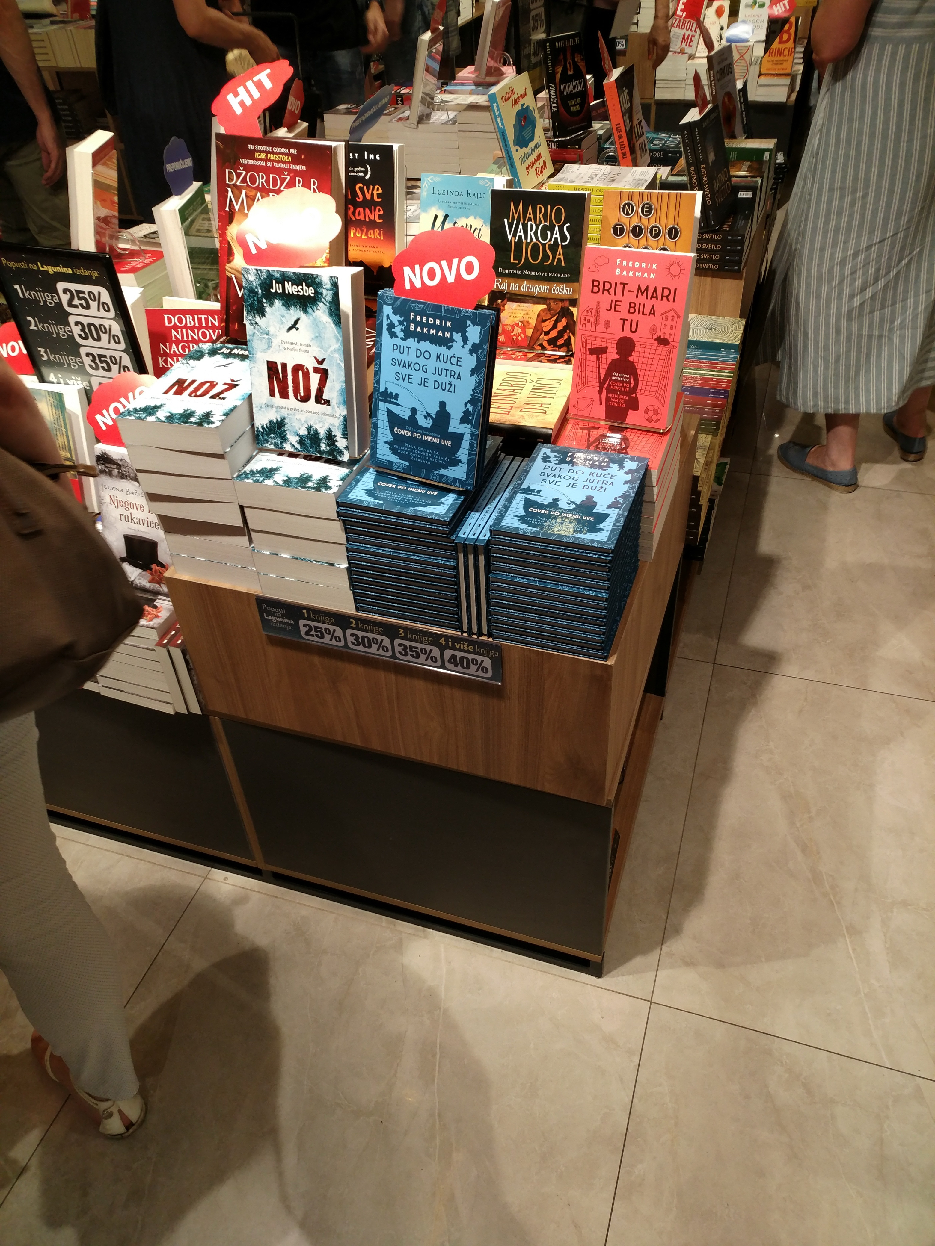 Night of book manifestation, 2019, Laguna bookshop, Belgrade, Serbia Srpski (latinica): 20. jubilarna manifestacija Noć knjige u Laguni, Beograd, Srbija